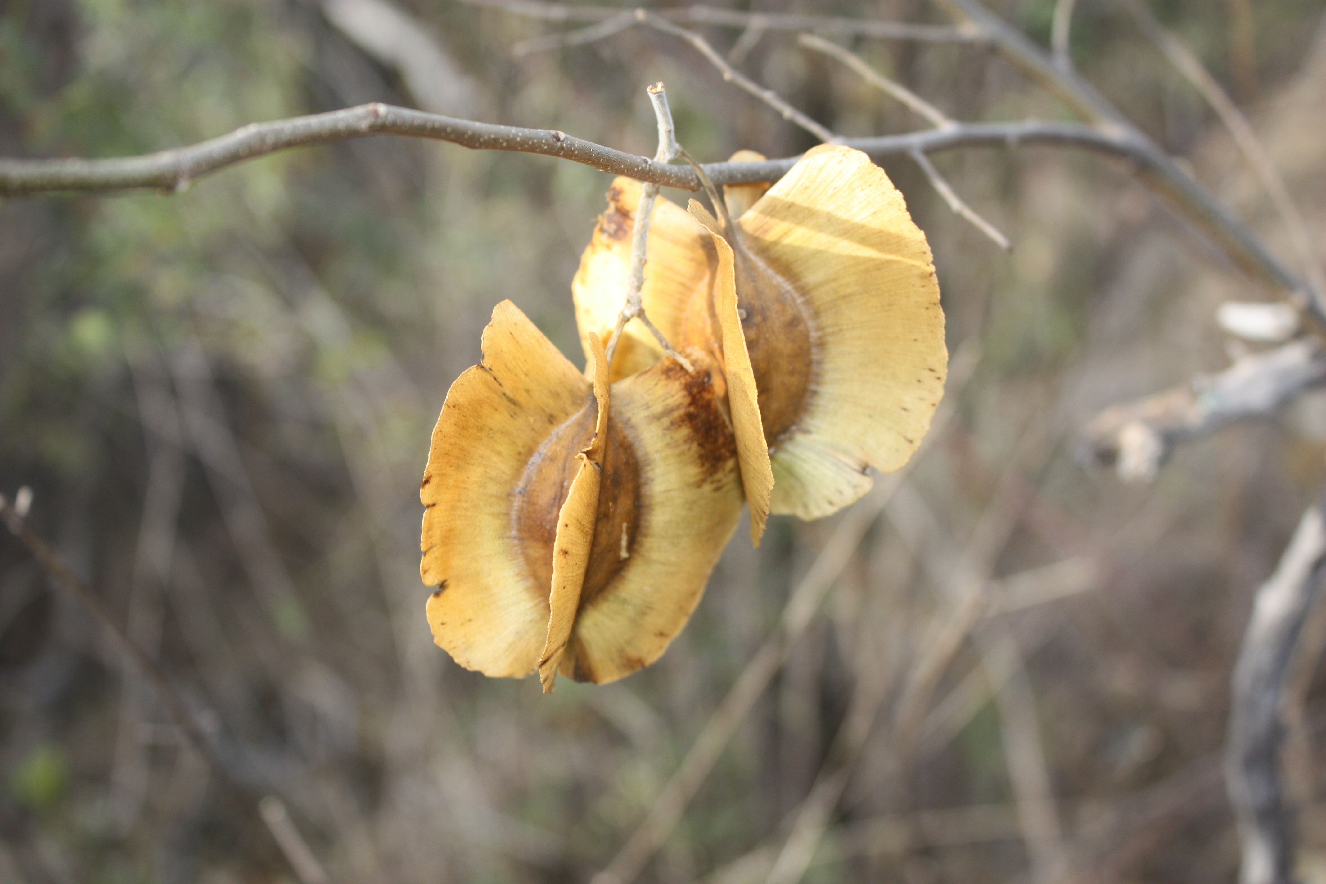 Combretum zeyheri, Mountain Sanctuary Park, Magaliesberg, South Africa